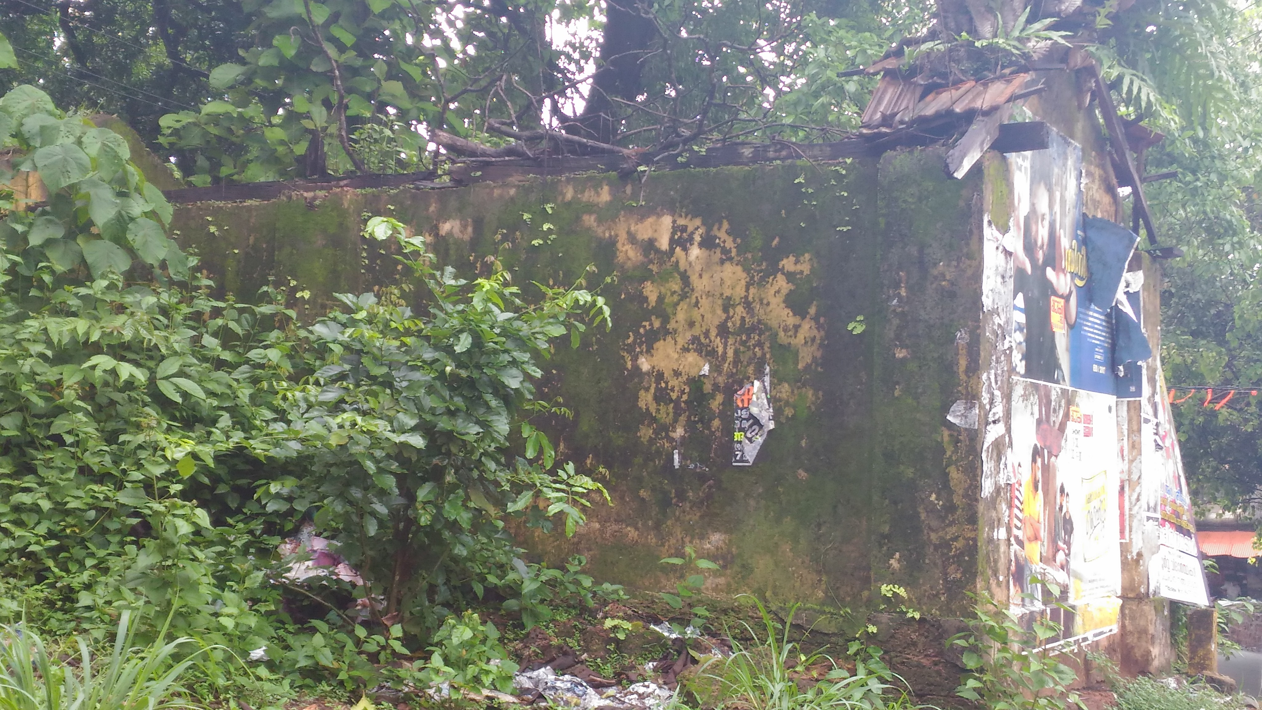 A cattle pound at Hosdurg